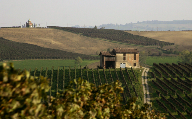 The Italian wine region Colli Piacentini in the Emilia-Romagna province.